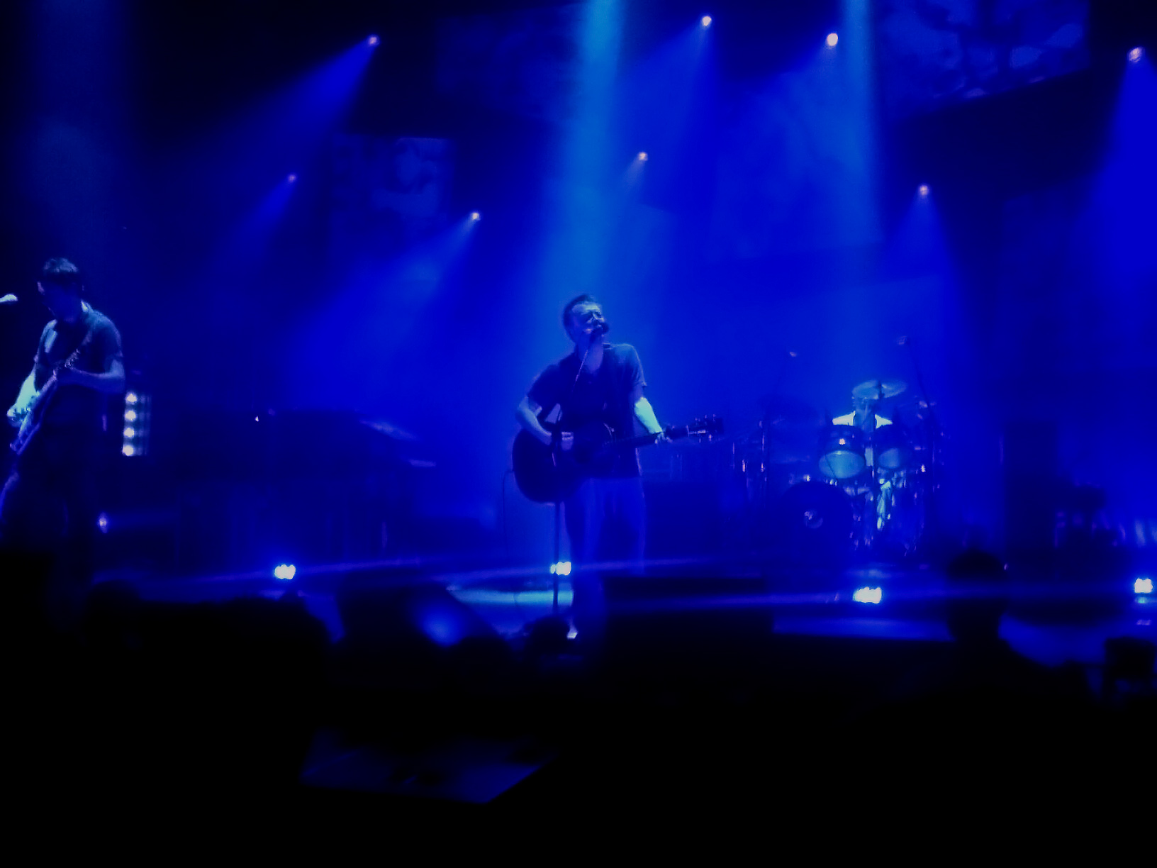 Radiohead Live@Blackpool, 12th May 2006 2: Thom Yorke performing live.